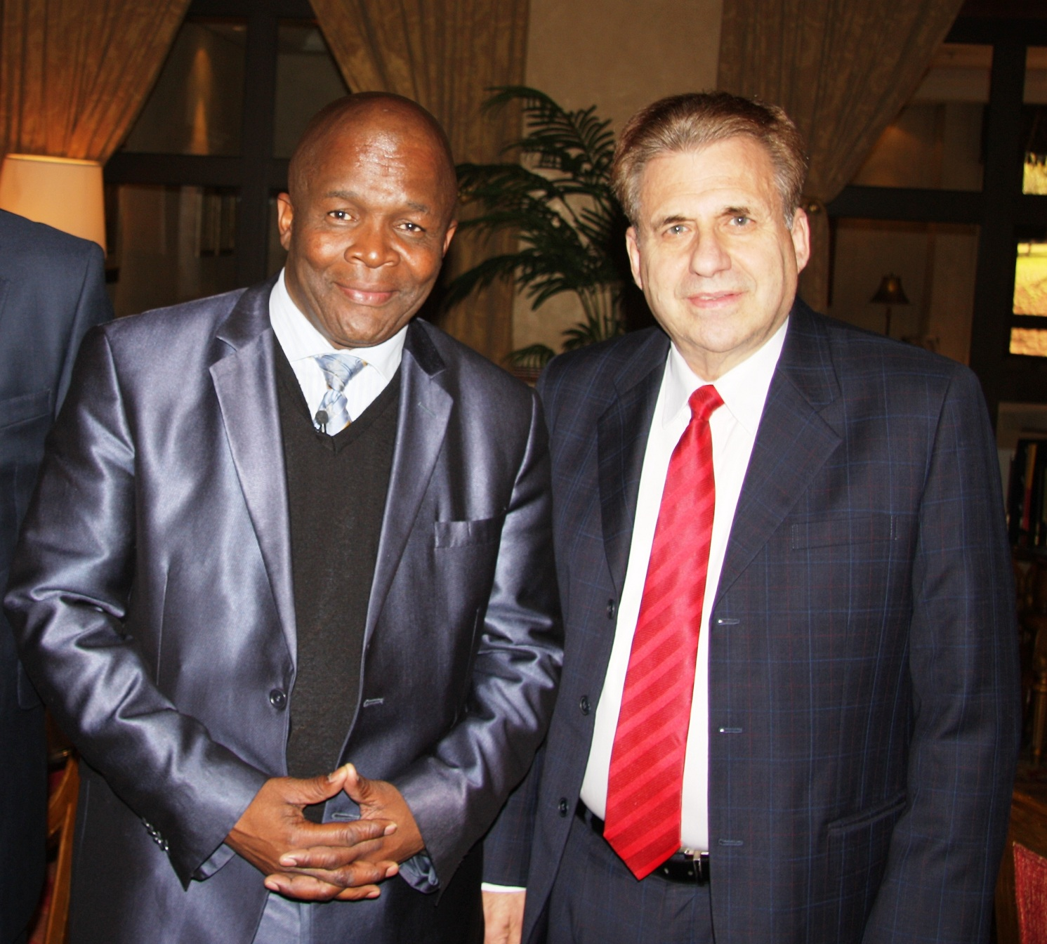 Ekurhuleni mayor Mondli Gungubele with Professor John D Kasarda